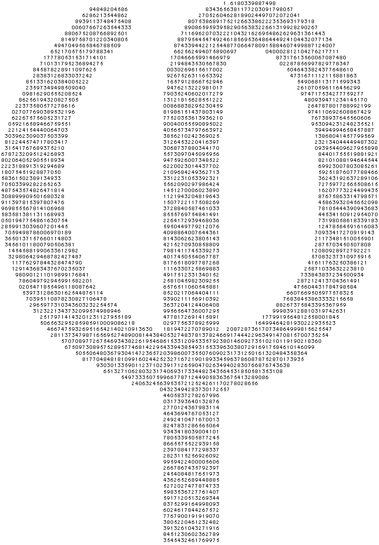 the letter phi written with the golden ratio digits.